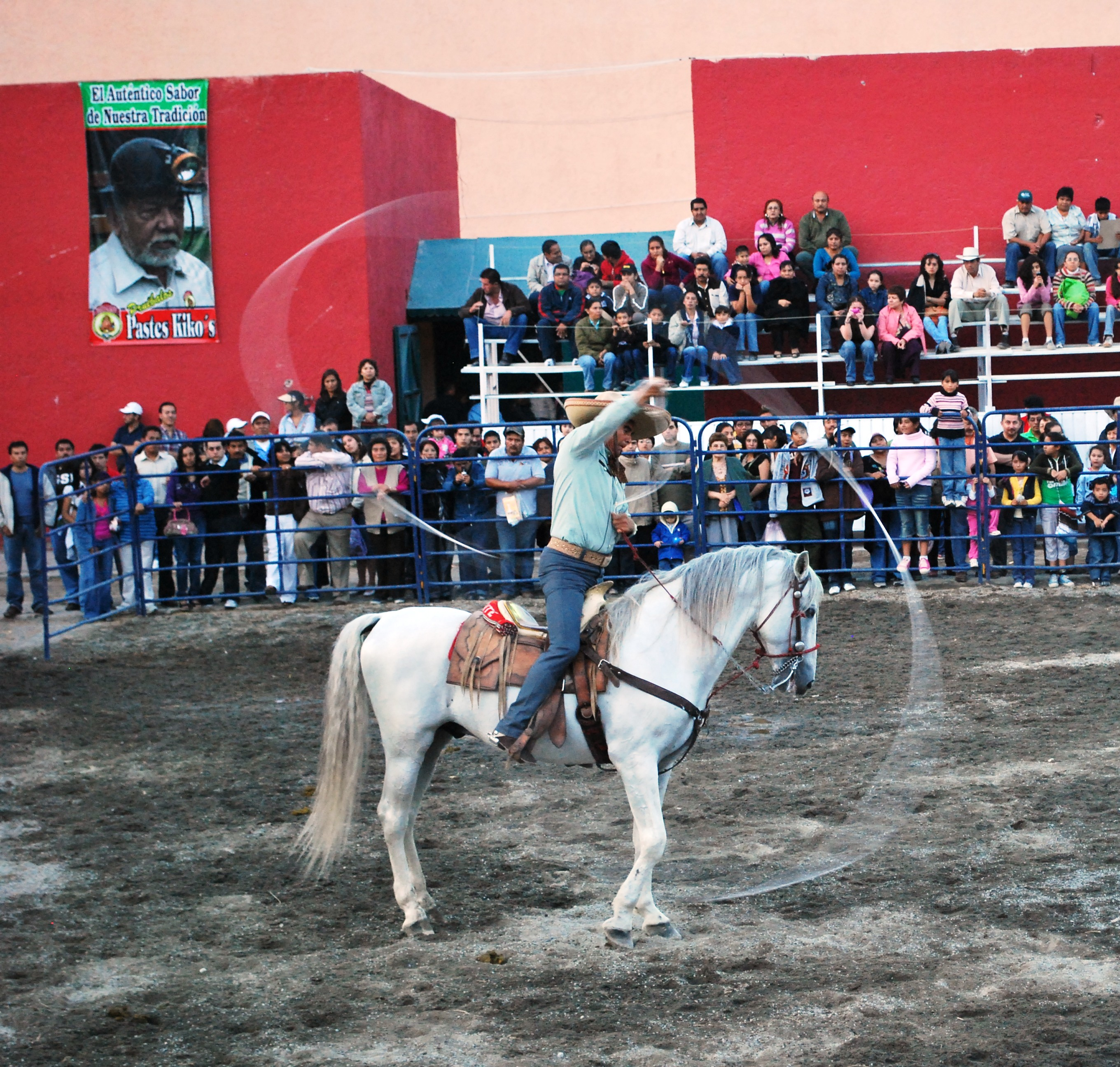 Charro with lariat at show of the Feria de Hidalgo in Pachuca, Hidalgo